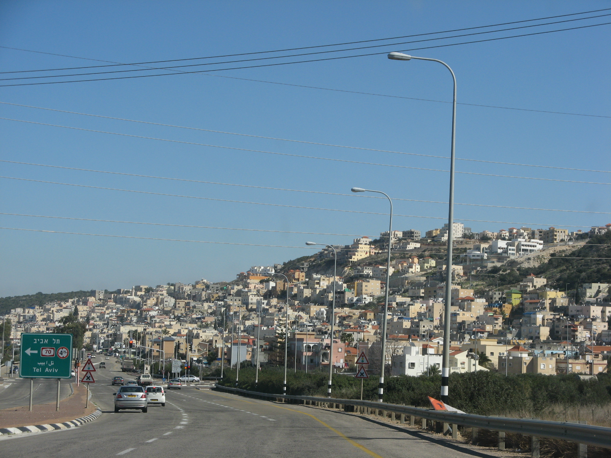 Faradis from road4